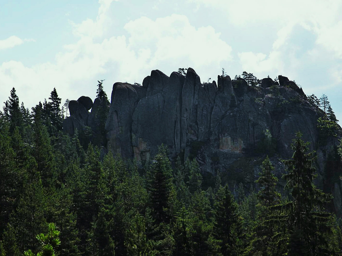 Kayalijski skali BG